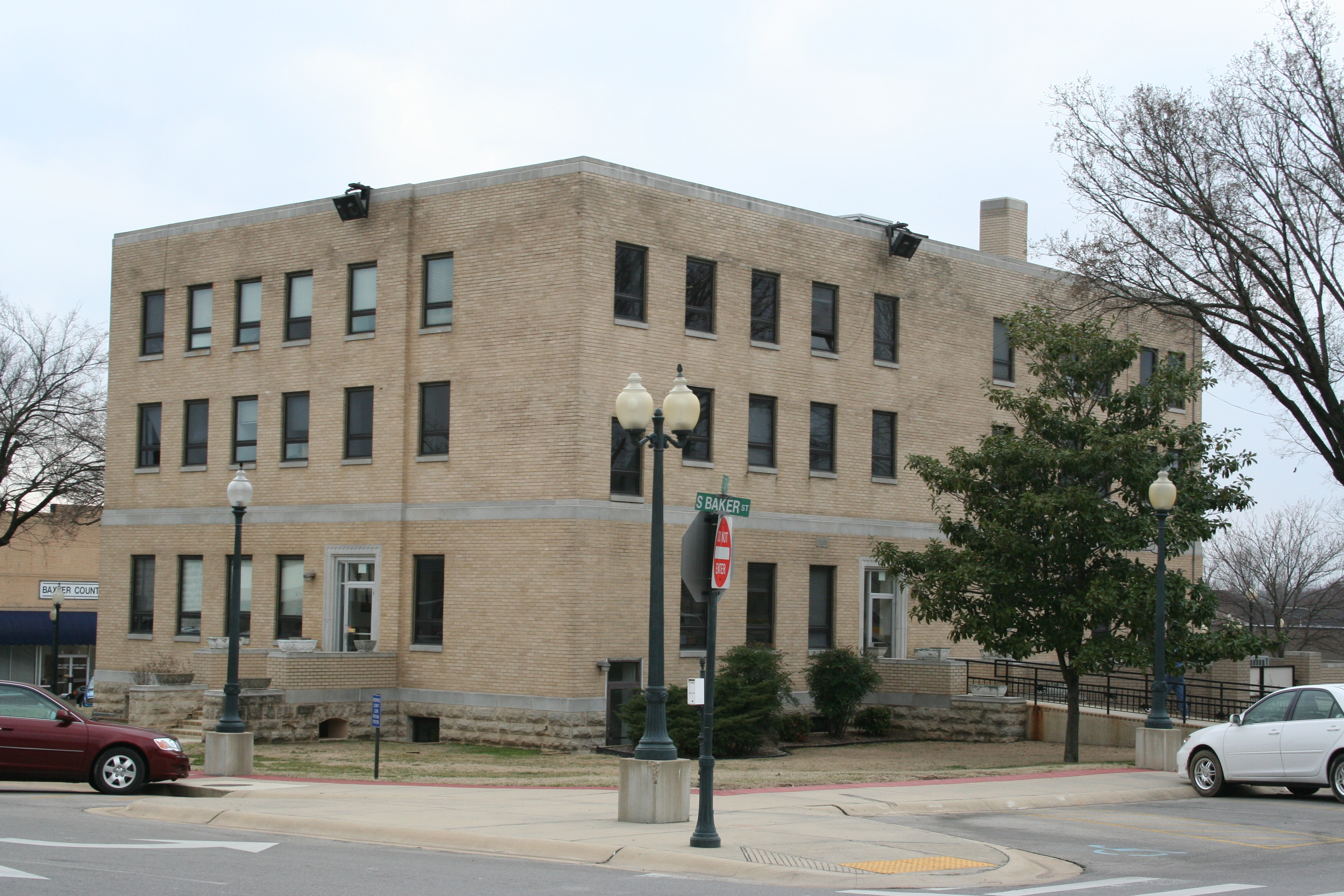 Courthouse of Baxter County in Mountain Home, Arkansas (Author: BRM)